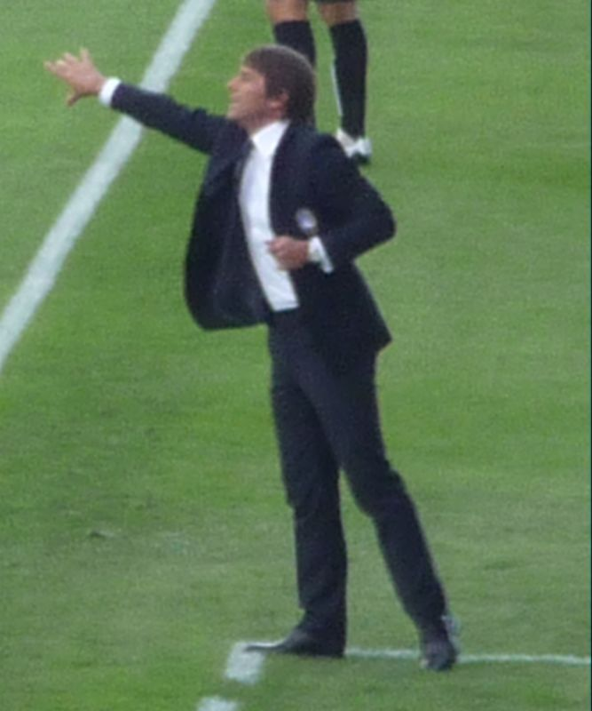 Udinese - Atalanta 1-3 18/10/2009